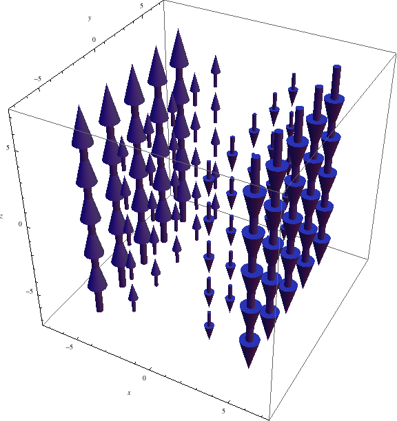 Update of curl_of_nonuniform_curl.jpg to reflect Mathematica 7.0 syntax & formatting, replaced JPG with PNG format